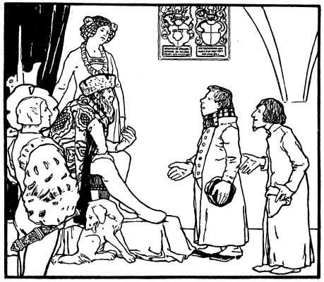 Illustration by Otto Ubbelohde to the fairy tale The Good Bargain